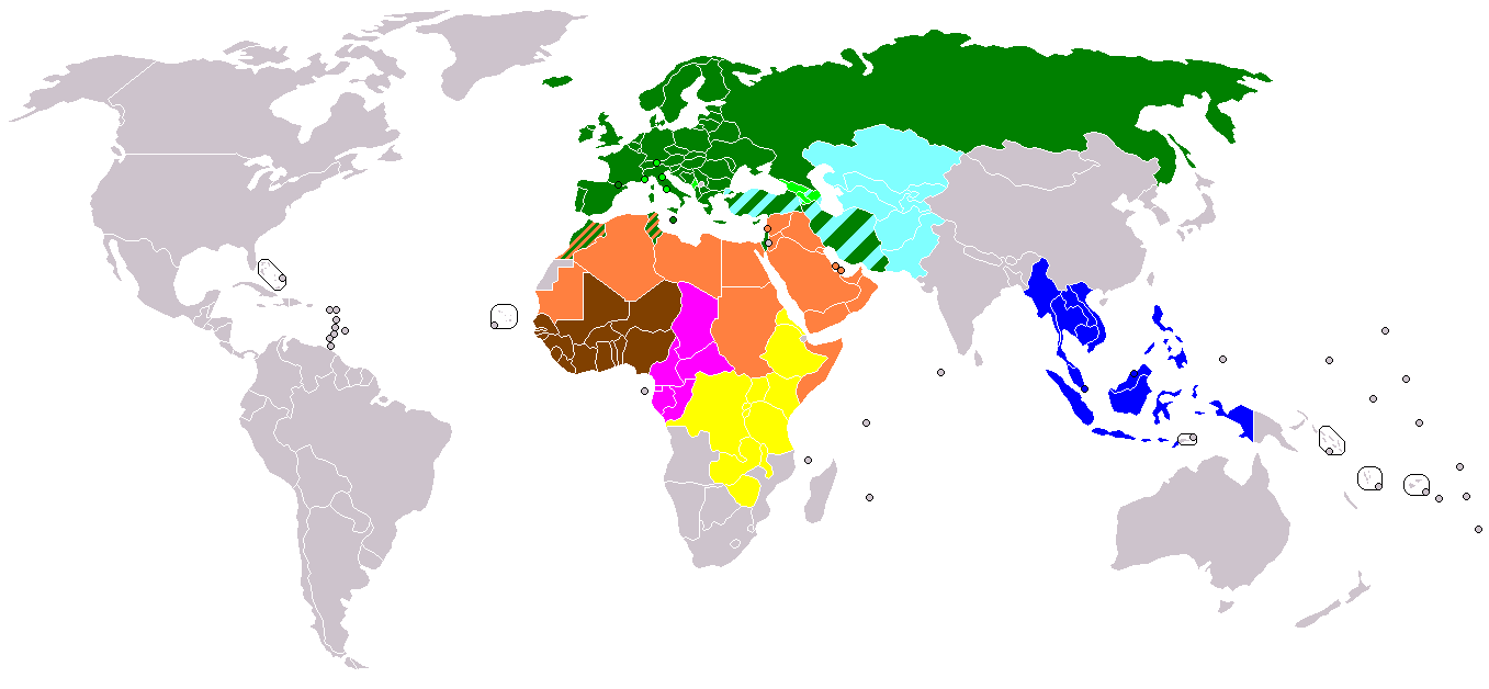 Dark green - Green card members; light green - Green card candidates or participating trough foreign Bureau; light blue - White card members (proposed); dark blue - Blue card members; pink - Pink card members; orange - Orange card members; brown - Brown card members; yellow - Yellow card members